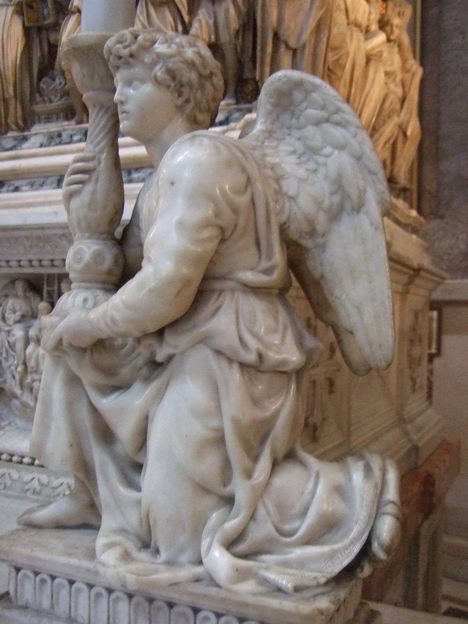 Angel (1494) by Michelangelo on the Shrine of Saint Dominic, Basilica of Saint Dominic, Bologna, Italy